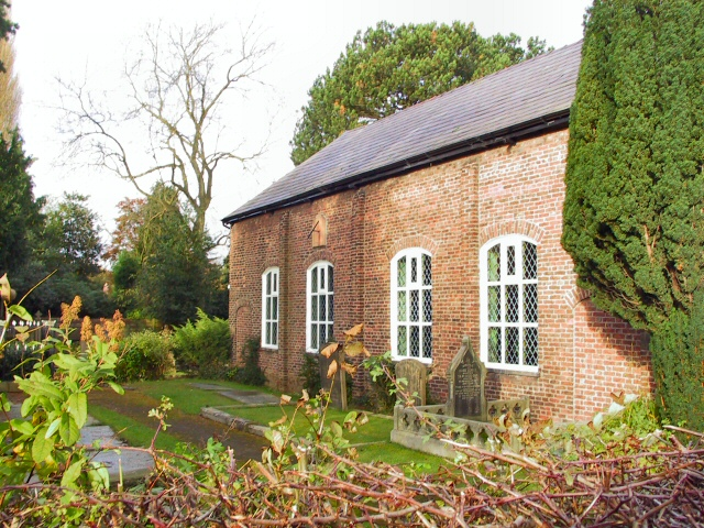 Hale Chapel. The Unitarian Chapel at Hale, of which this is the south wall, was opened in 1723. You attention is drawn to the sundial over one of the windows.